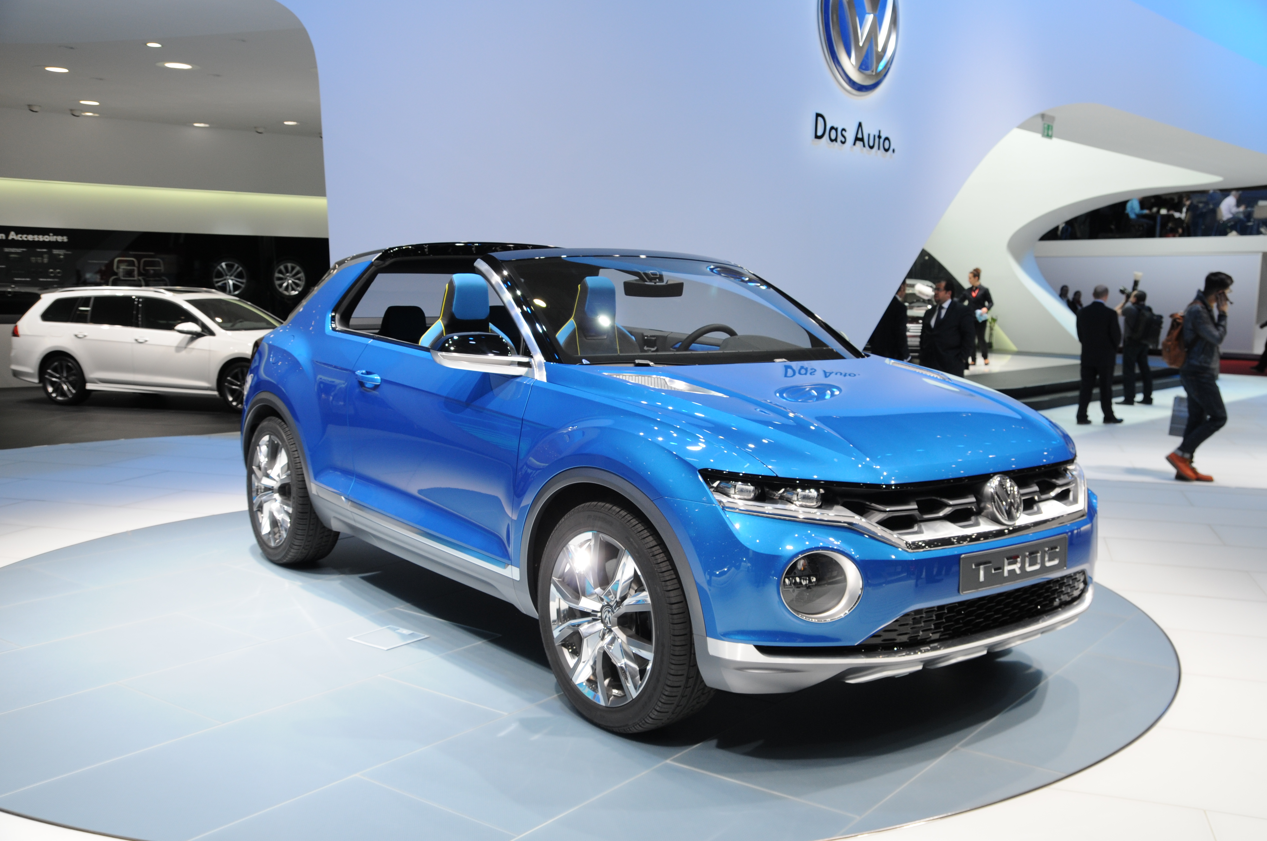 Geneva Motor Show 2014 (photo taken on the first press day)